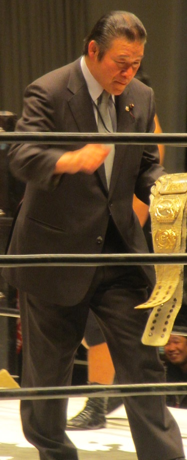 Japanese professional wrestler,Kengo Kimura. Dec 30 2015 BJW Korakuen Hall.